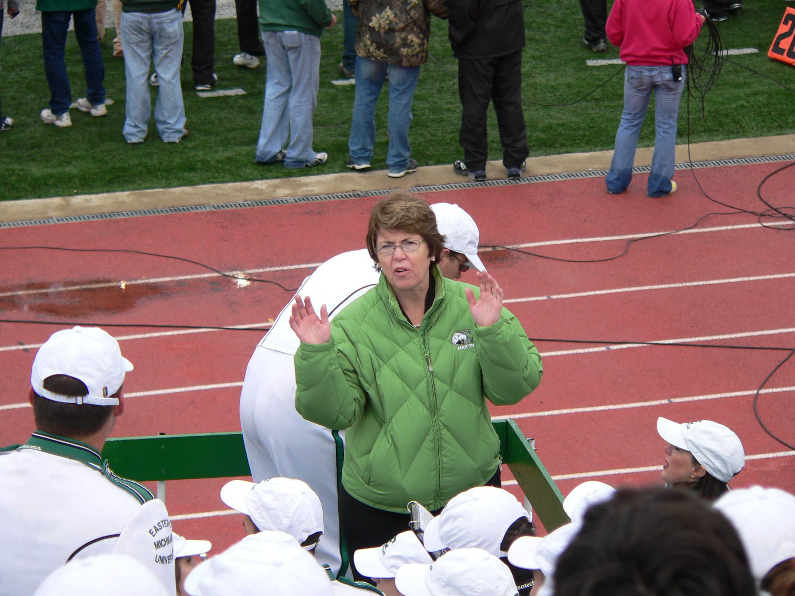 EMU President Dr. Susan Martin conducts the marching band at the 2010 homecoming game against the Ohio Bobcats.